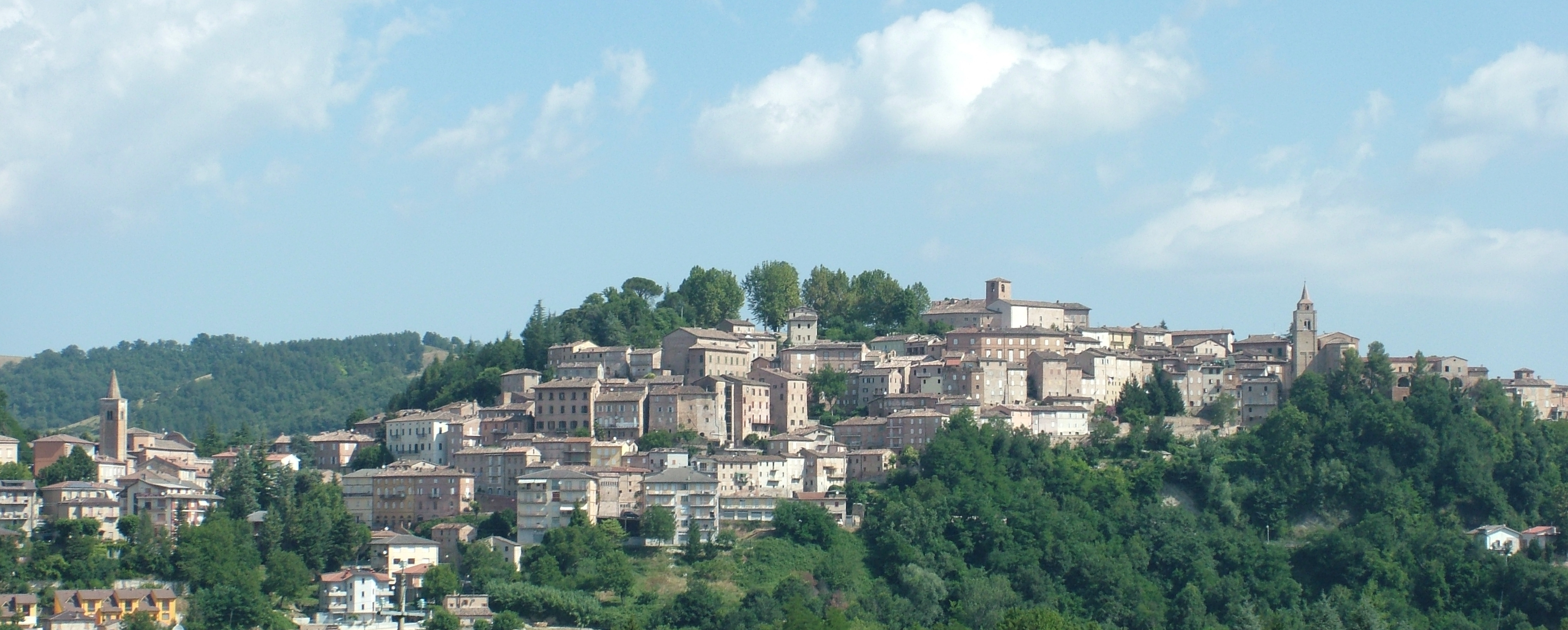 View of Amandola (FM) from the provincial road SP237